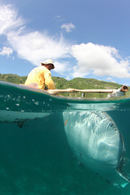 Controversial as several Marine conservation groups label the feeding practice as unnatural, it has been several years since the Whalesharks of Oslob was thrust into the spotlight via mainstream media and concerned wildlife group complaints have eventually died down. The whalesharks continue appearing every morning to provide a semi wild marine circus for tourists from around the world wishing for close encounters with Whalesharks